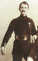 American fencers in 1891. standing l to r: William Scott O'Connor, Charles Tatham, C. C. Nadal seated is Albertson Van Zo Post